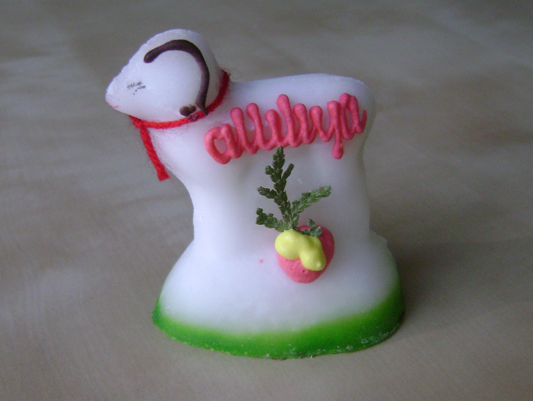 Easter 2010. Sugar Lamb